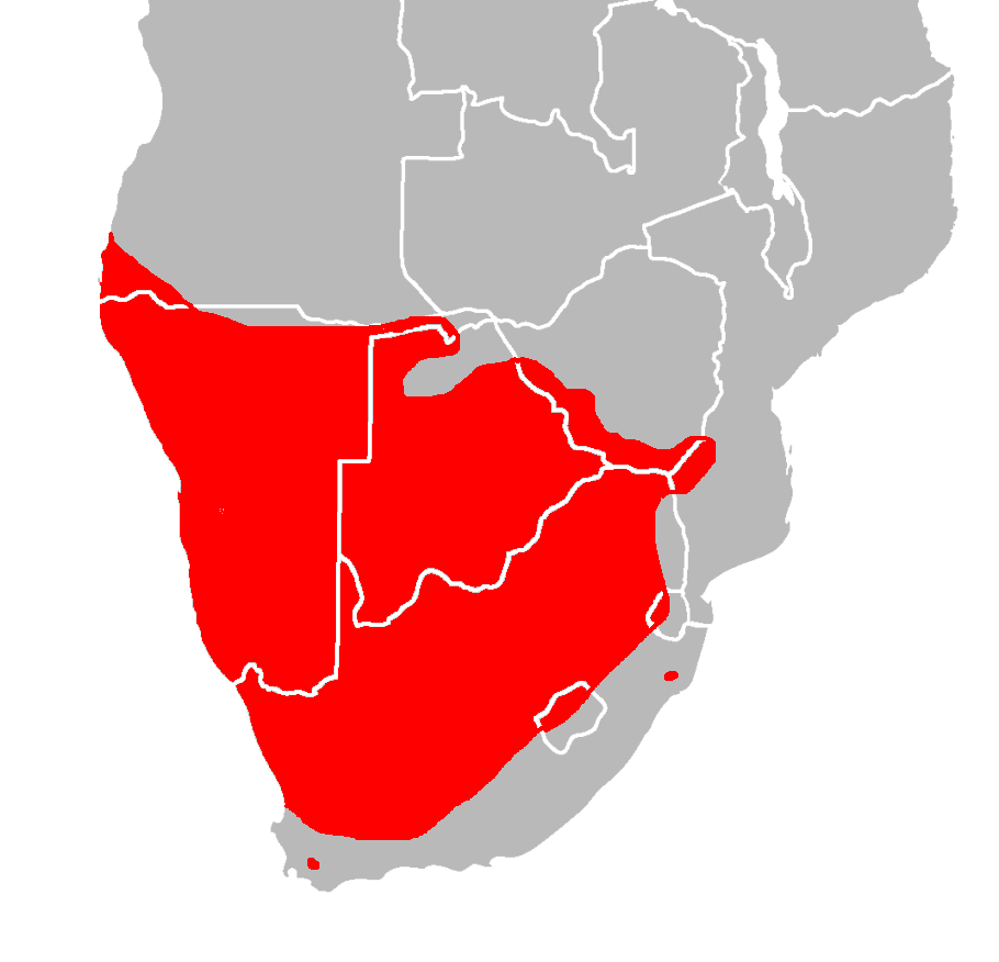 Range map of Brown Hyena (Parahyaena brunnea/Hyaena brunnea)